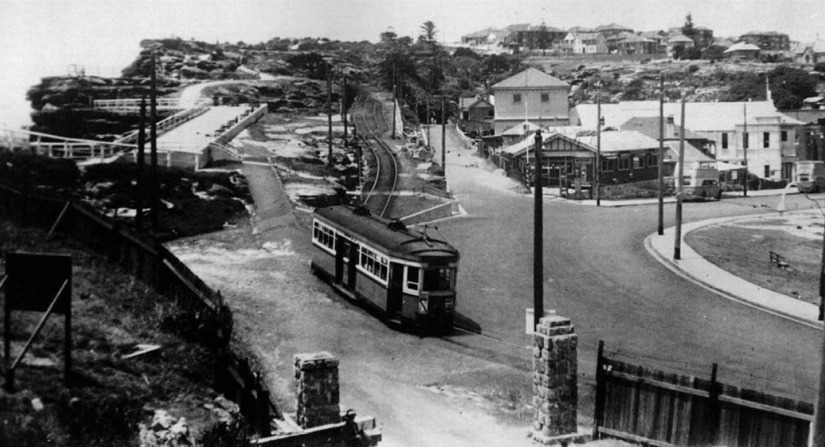 Former tram cutting, Gap Park Watsons Bay. This tram cutting has now been filled in.